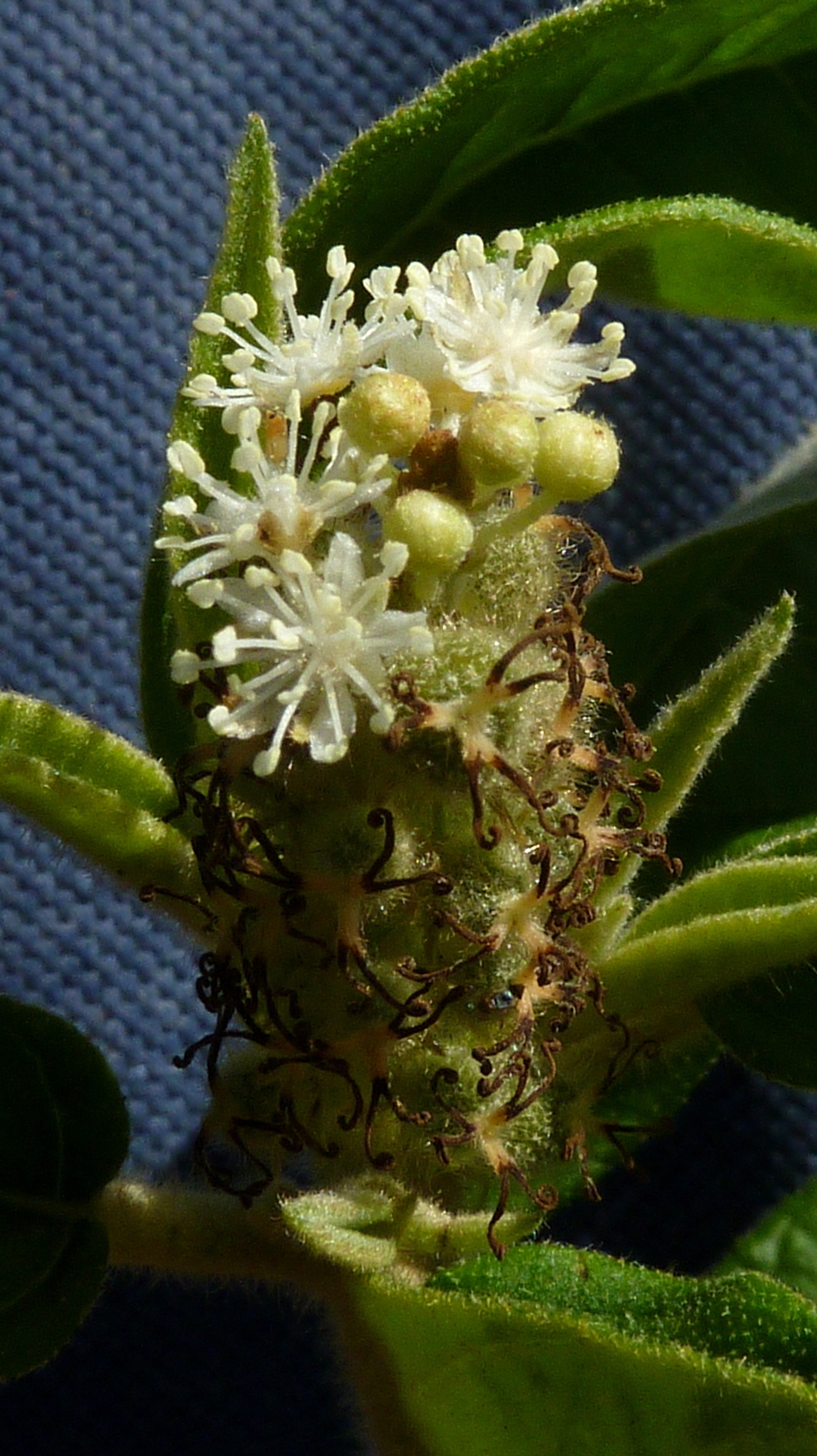 Staminate flowers.